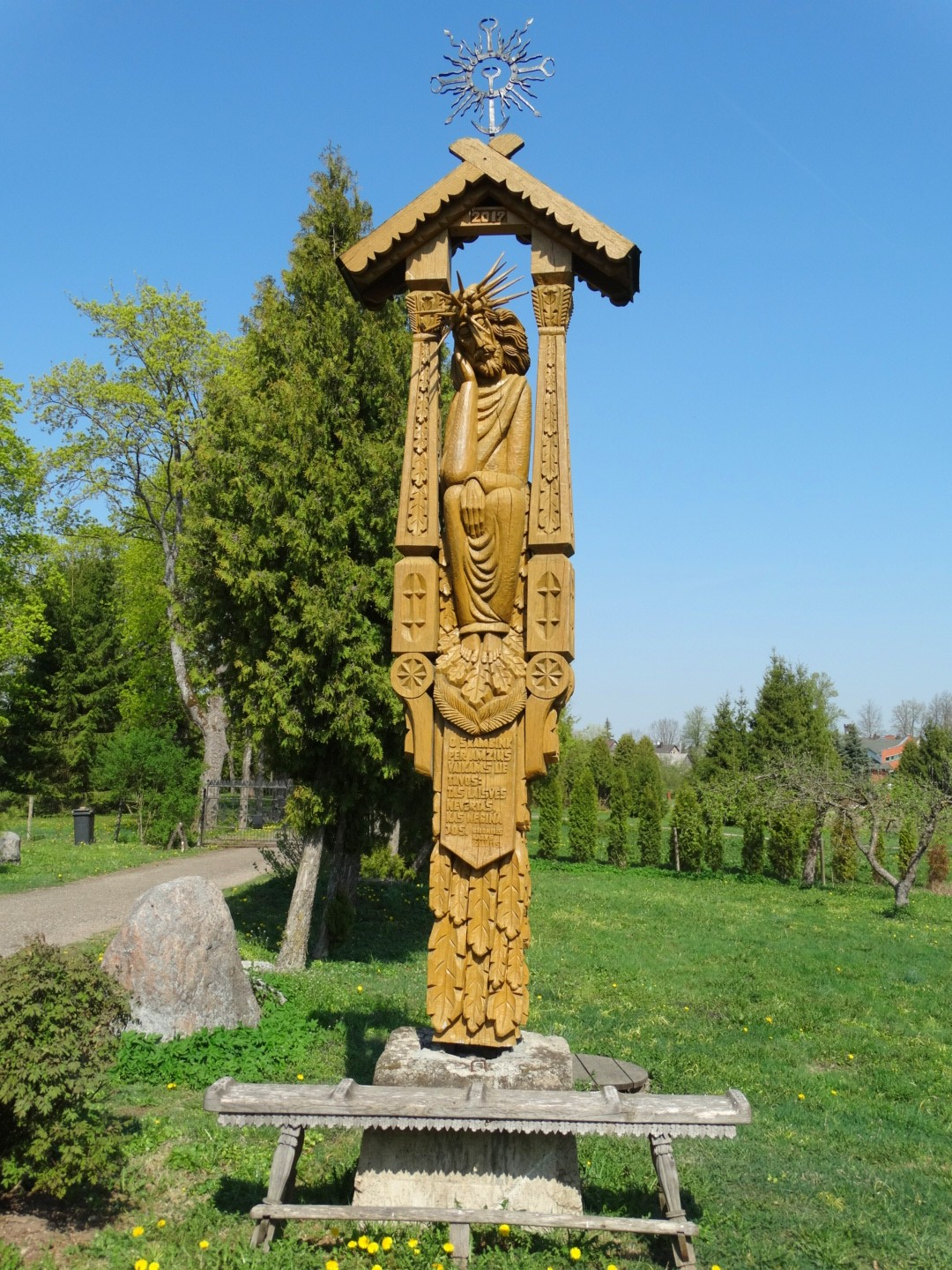 Krakės, Kėdainiai district, Lithuania